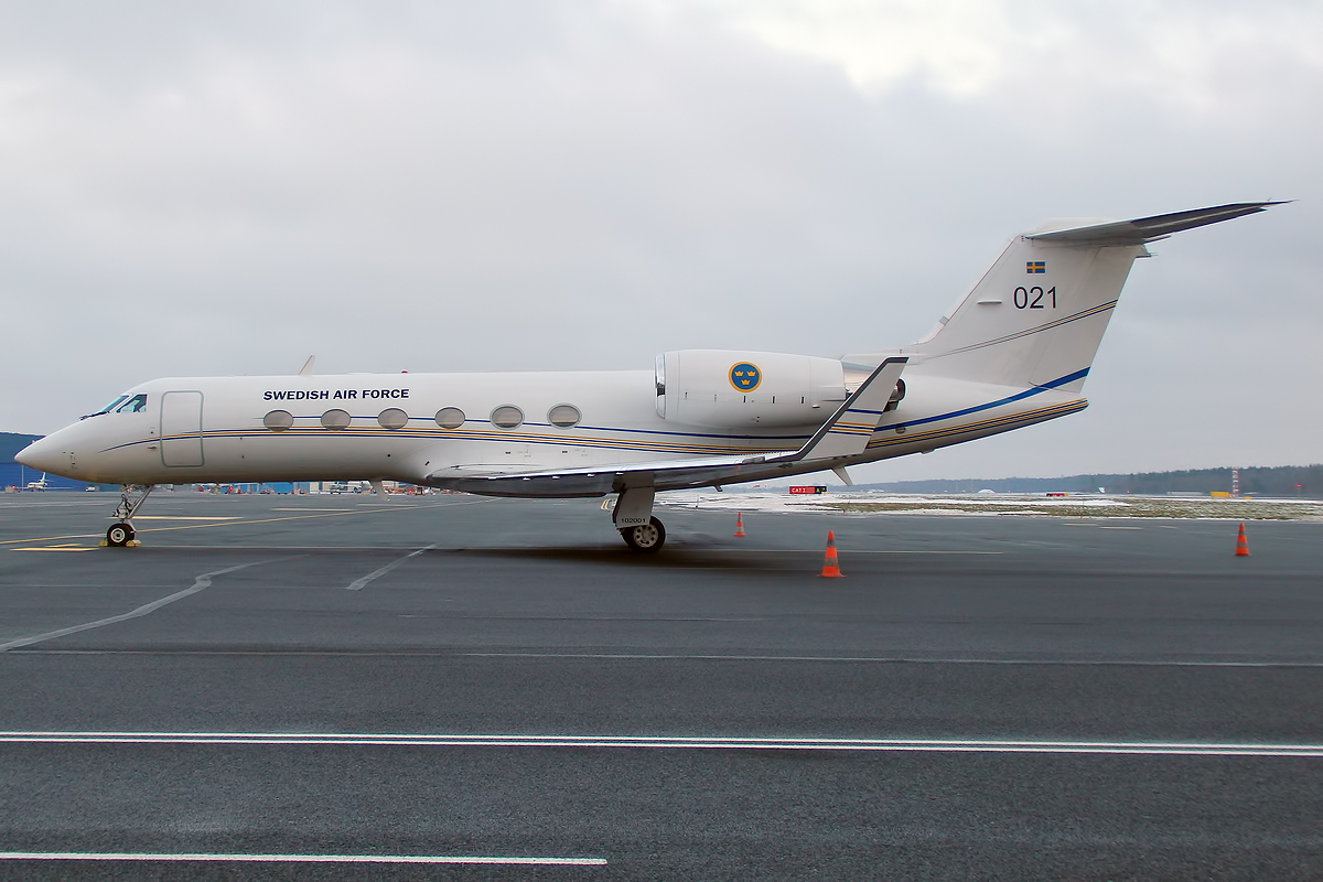 Swedish Air Force, 021, Gulfstream Aerospace G-IV